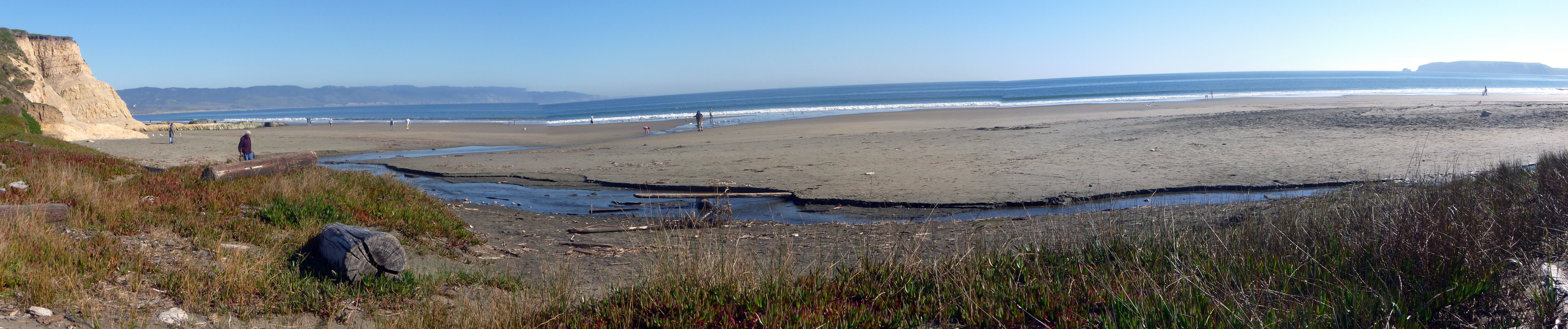 Drake's Beach, looking out over Drakes Bay